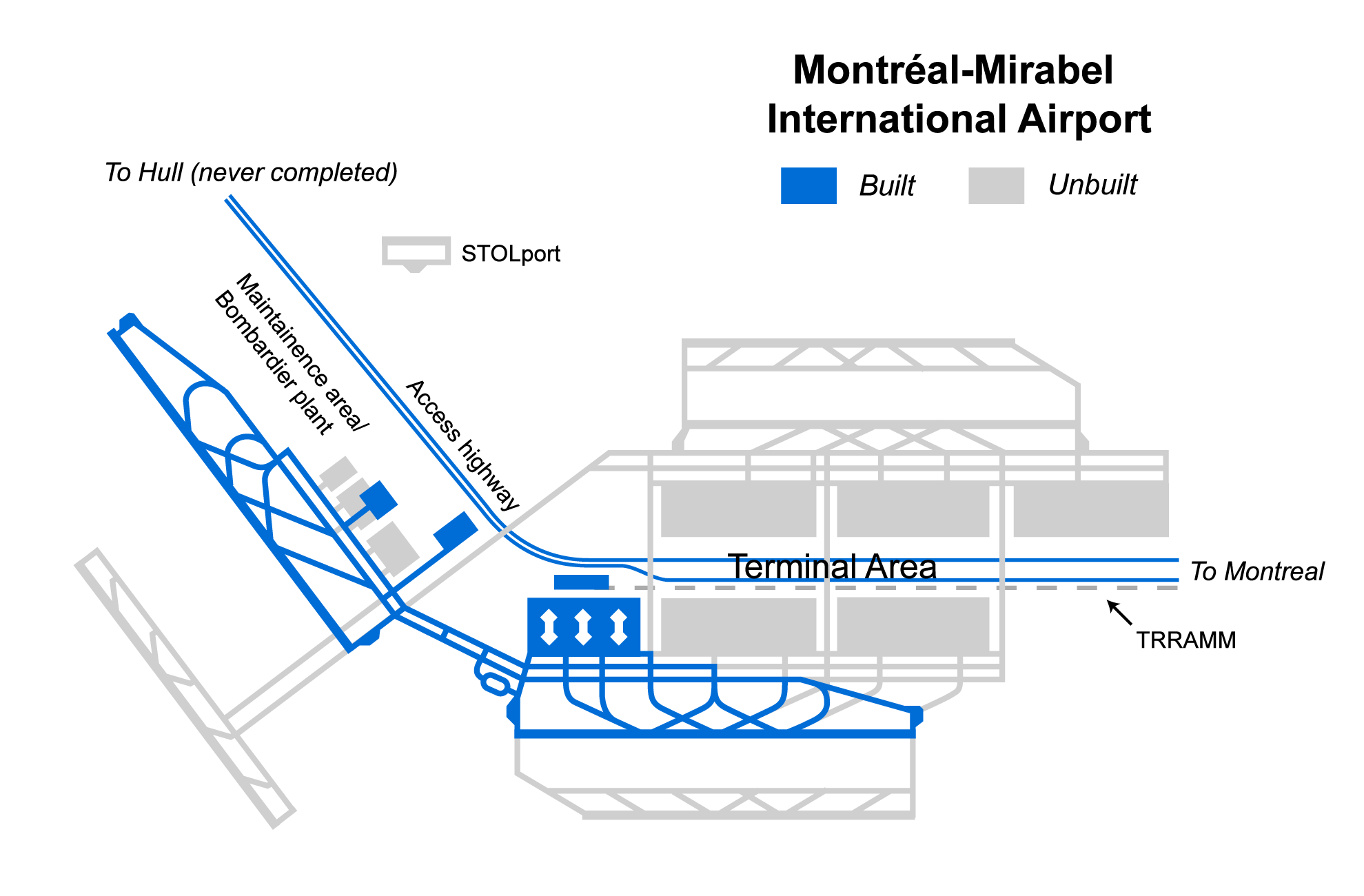 Diagram of Montréal-Mirabel International Airport Installations, built and unbuilt (the A-50 extension to Gatineau was completed in 2012)